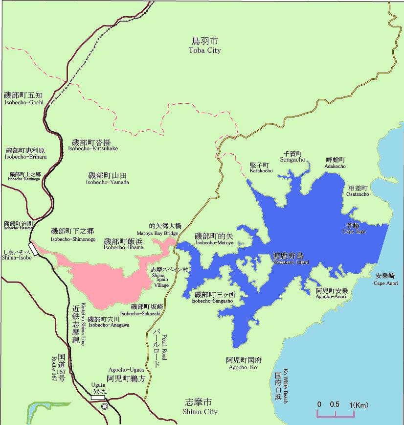 Map of Matoya Bay (Matoya-wan, blue) and Izo-no-Ura (pink) in Shima and Toba Cities, Mie Prefecture, Japan